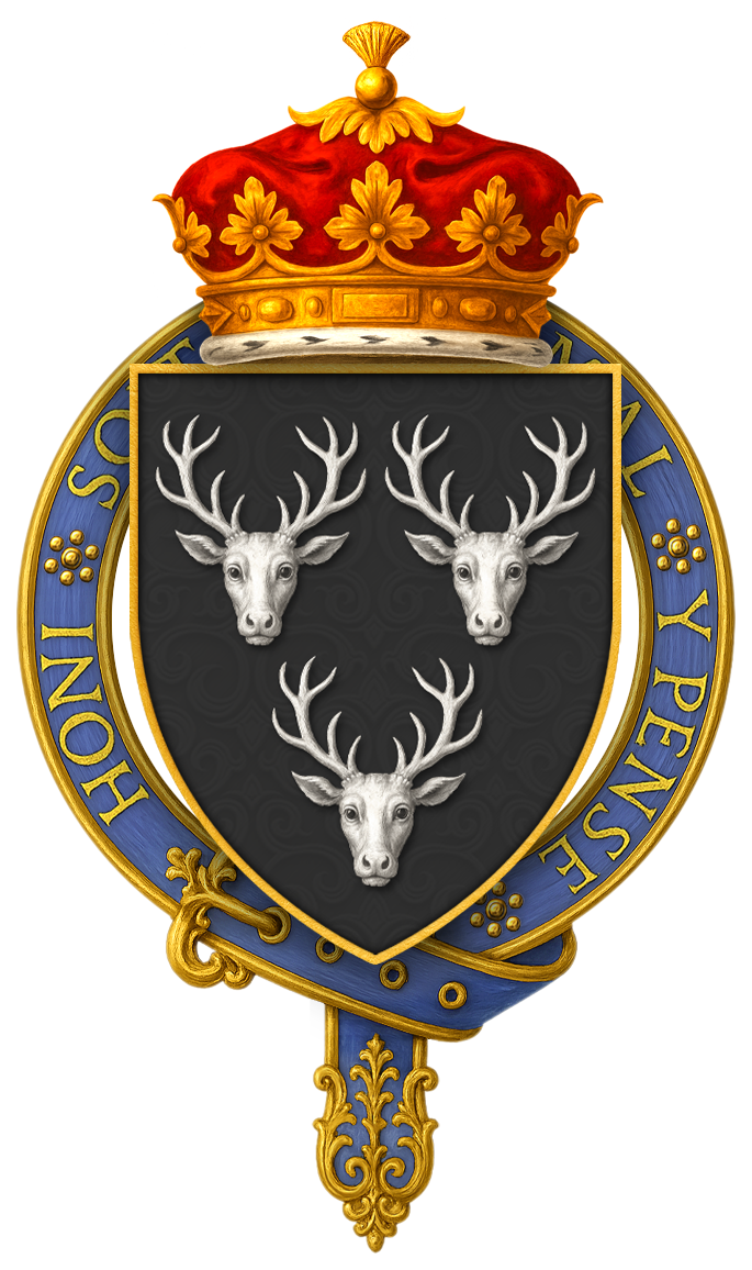 Coat of arms of Edward Cavendish, 10th Duke of Devonshire, KG, as displayed on his Order of the Garter stall plate in St. George's Chapel.